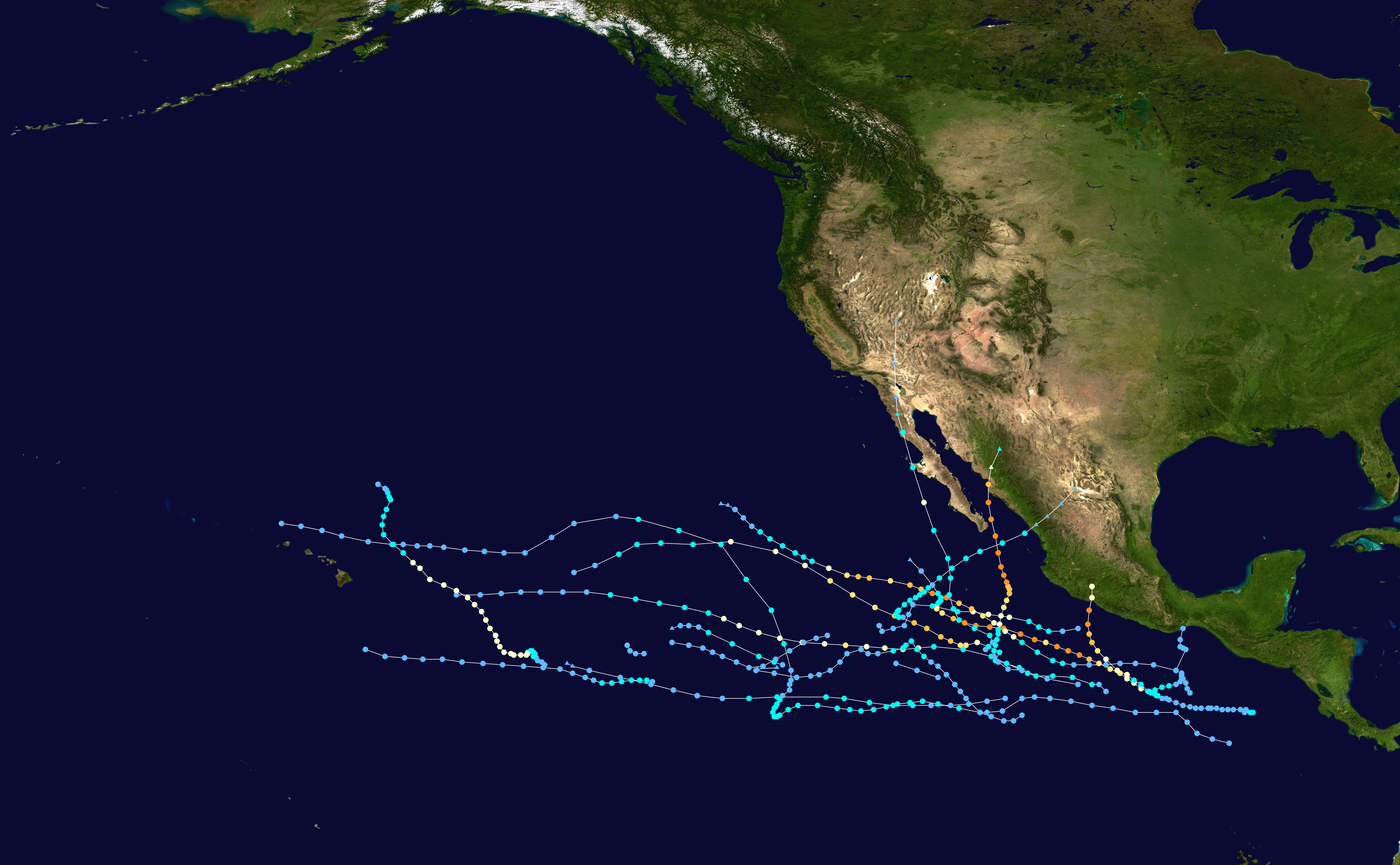 This map shows the tracks of all tropical cyclones in the 1976 Pacific hurricane season. The points show the location of each storm at 6-hour intervals. The colour represents the storm's maximum sustained wind speeds as classified in the Saffir-Simpson Hurricane Scale (see below), and the shape of the data points represent the type of the storm. Saffir–Simpson hurricane wind scale Tropical depression≤38 mph≤62 km/h Category 3111–129 mph178–208 km/h Tropical storm39–73 mph63–118 km/h Category 4130–156 mph209–251 km/h Category 174–95 mph119–153 km/h Category 5≥157 mph≥252 km/h Category 296–110 mph154–177 km/h Unknown Storm typeTropical cycloneSubtropical cycloneExtratropical cyclone / Remnant low / Tropical disturbance